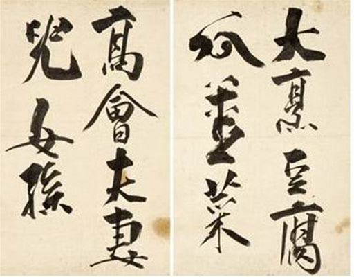 This original calligraphic style is called “Chusache” which was named after the creator, Chusa Kim Jeonghee